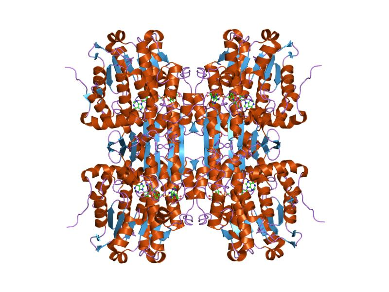 Cartoon representation of the molecular structure of protein registered with 1ky5 code.